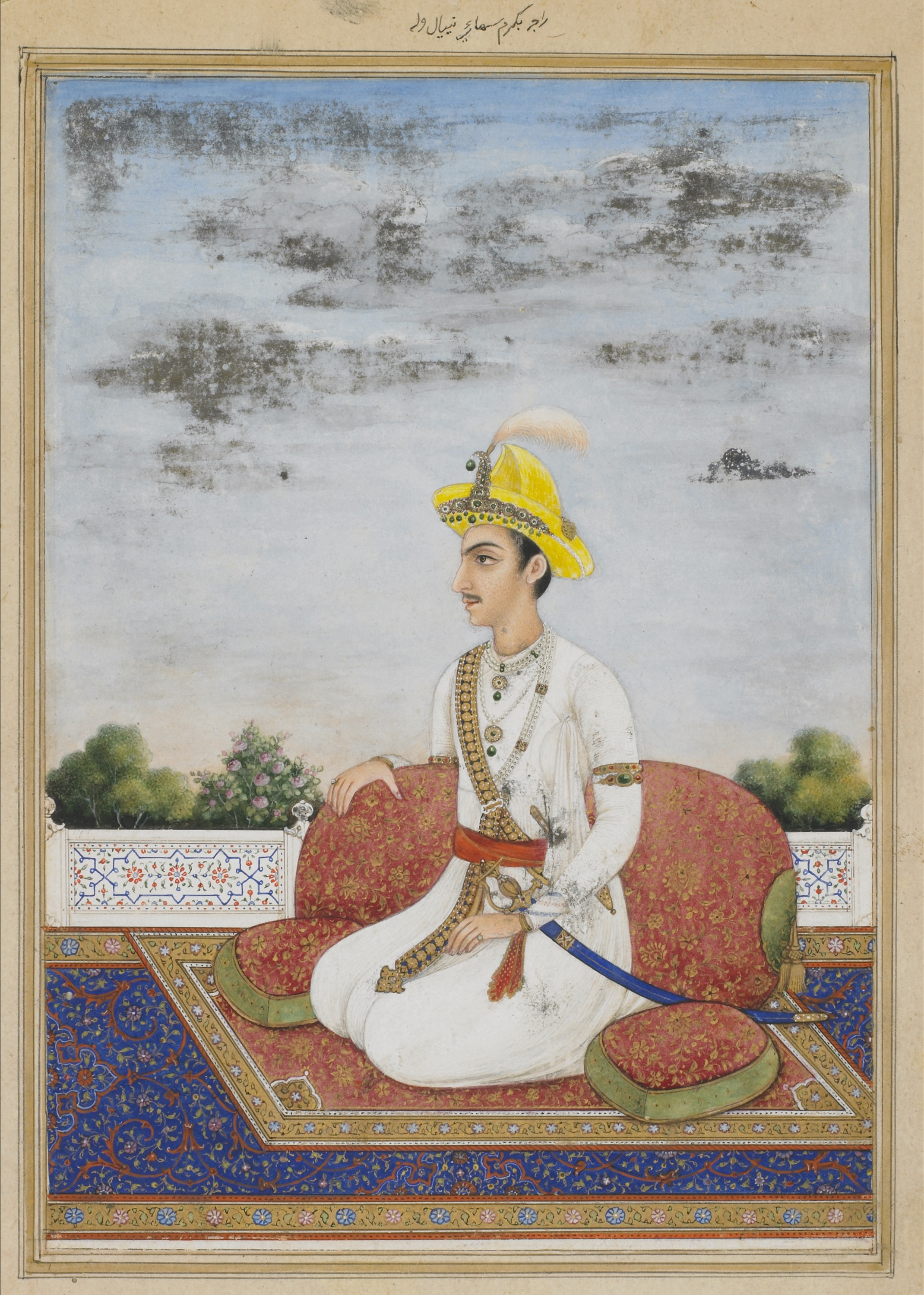 A 19th century painting of King Rajendra Bikram Shah Deva of Nepal from the Freer Gallery of Art at Smithsonian Institution